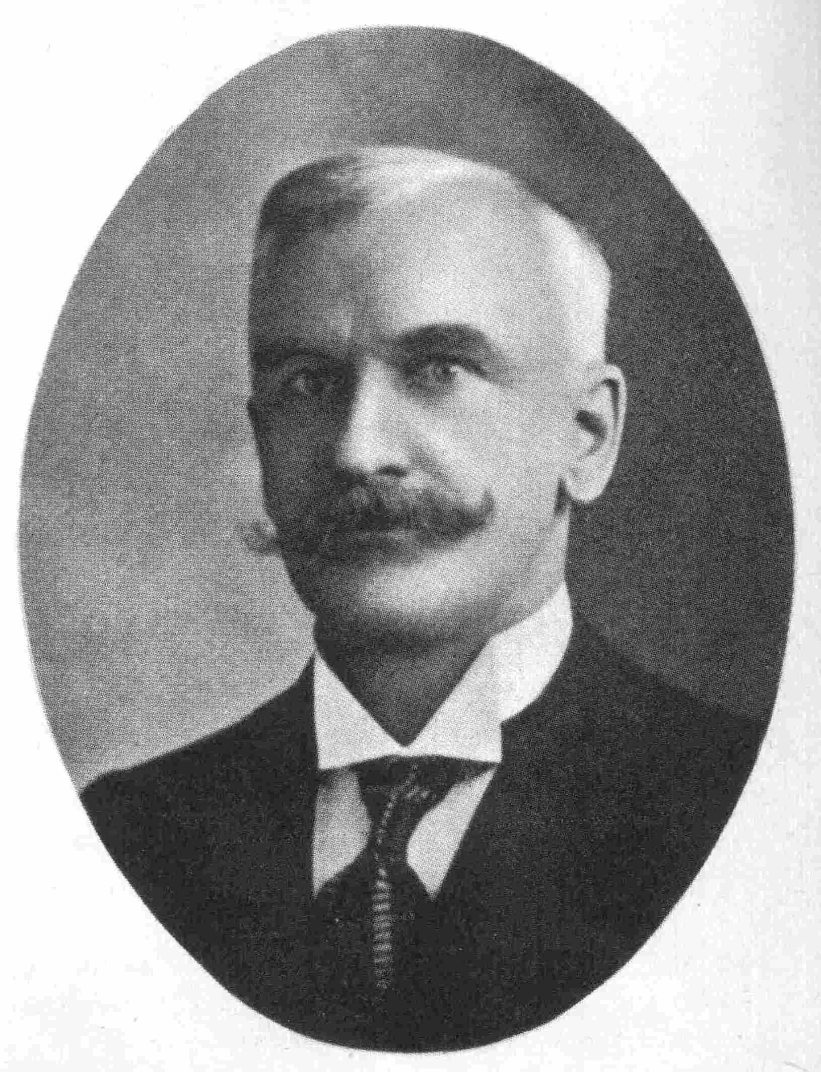 American chess problemist William Shinkman (1847-1933)